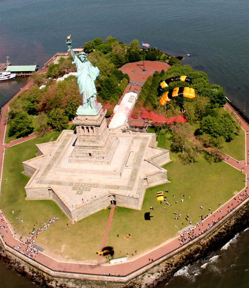 The Golden Knights, the U.S. Army's official parachute demonstration team, made a historical jump as part of their 50th Anniversary, onto the grounds of the Statue of Liberty in New York City. The demonstration was part of the Memorial weekend kick-off as members of the Gold demonstration team glided effortlessly toward Liberty Island, before a crowd of more than 3,000 spectators. See more at Army.mil